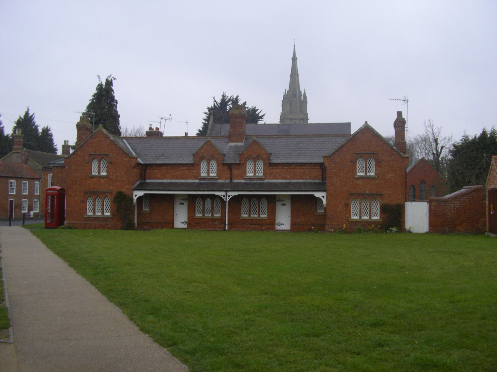 Houses on the north side of Heckington Village Green